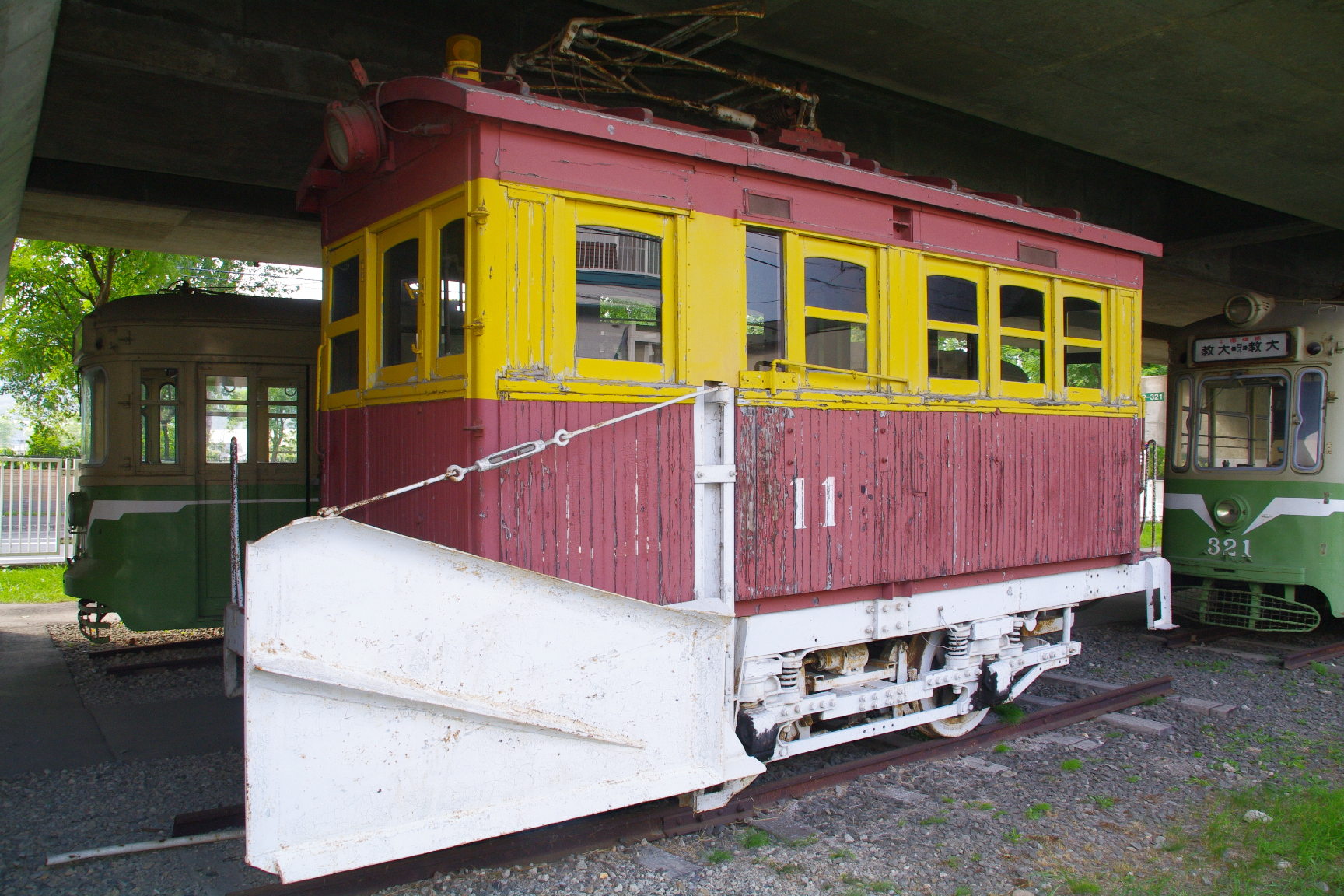 Sapporo streetcar Yuki 11.